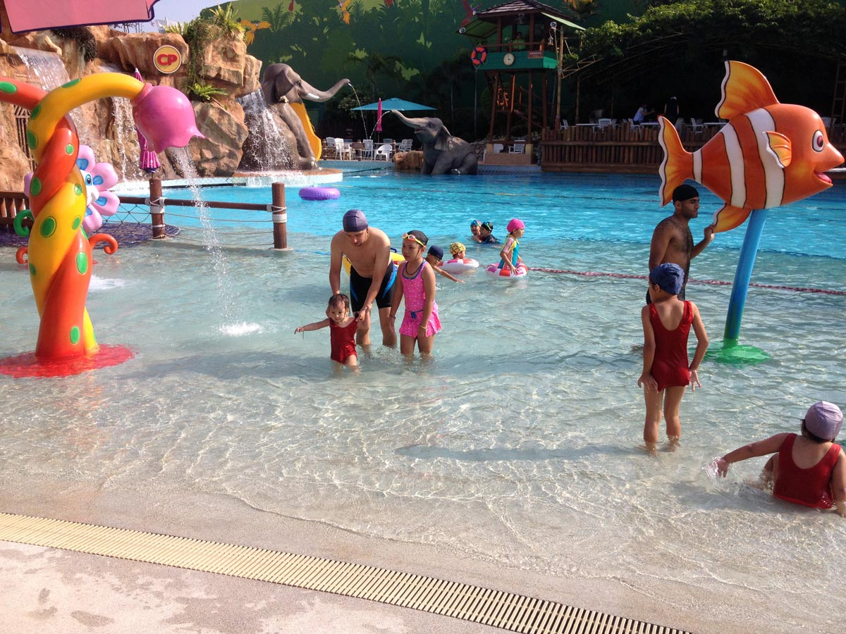 Water Park. The Mall Bang Kapi.